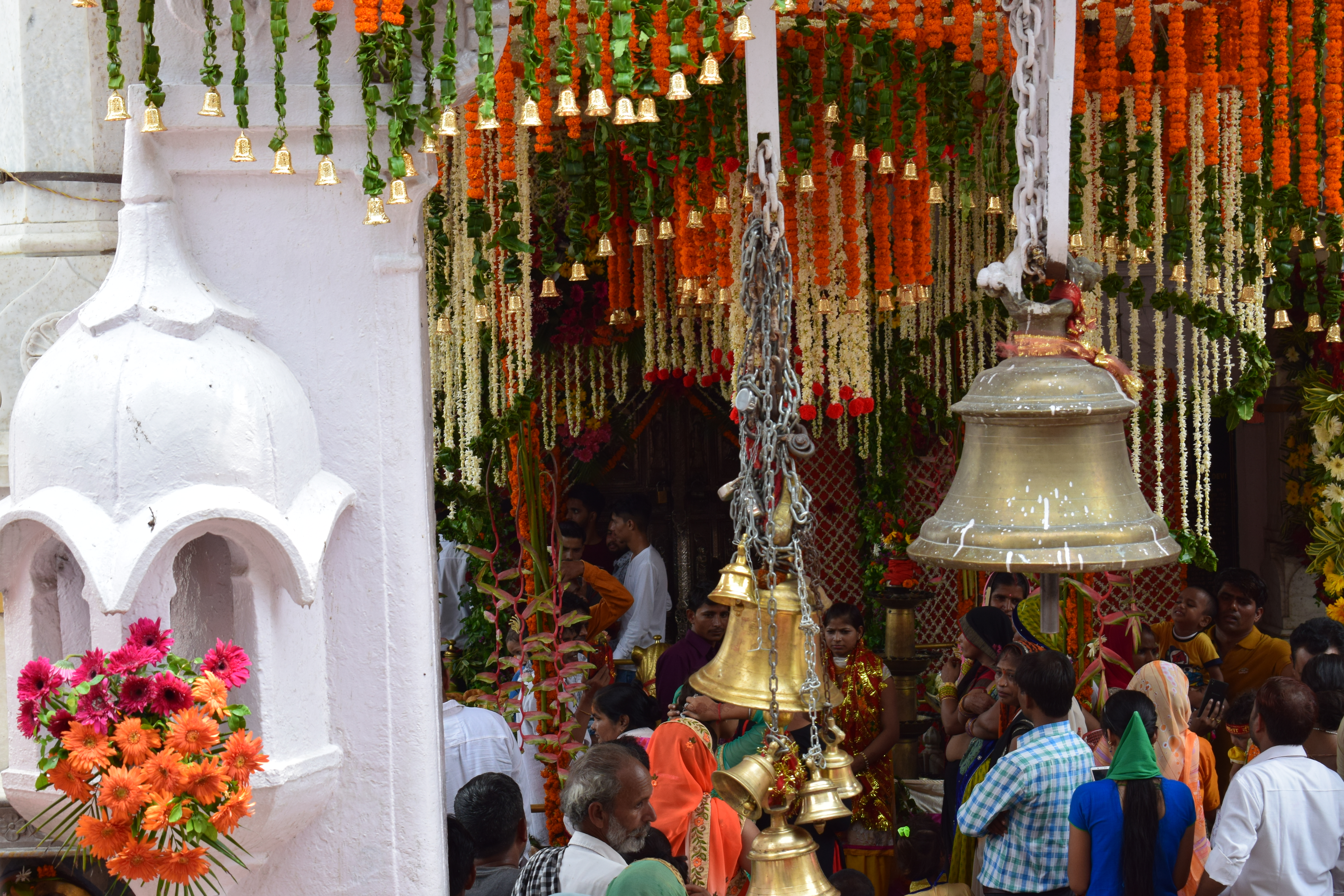 Vajreshwari Devi ShaktiPeeth Kangra